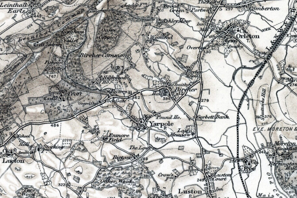 1899 Ordnance Survey map of Croft and Yarpole, Herefordshire, England in OS Map Sheet 181 - Ludlow (Hills). Reproduced with the permission of the National Library of Scotland.[1]